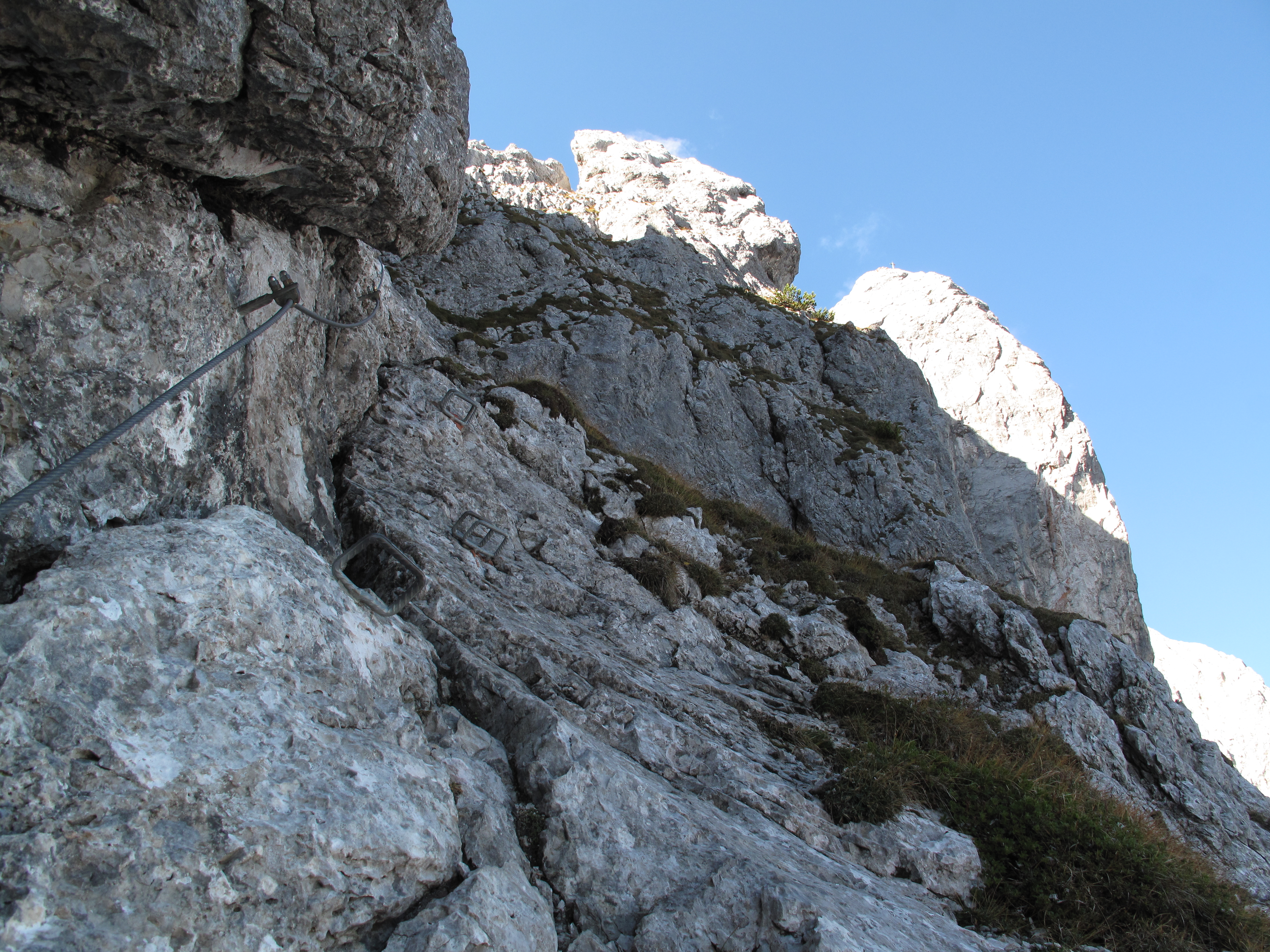 Brudertunnel, Karwendel